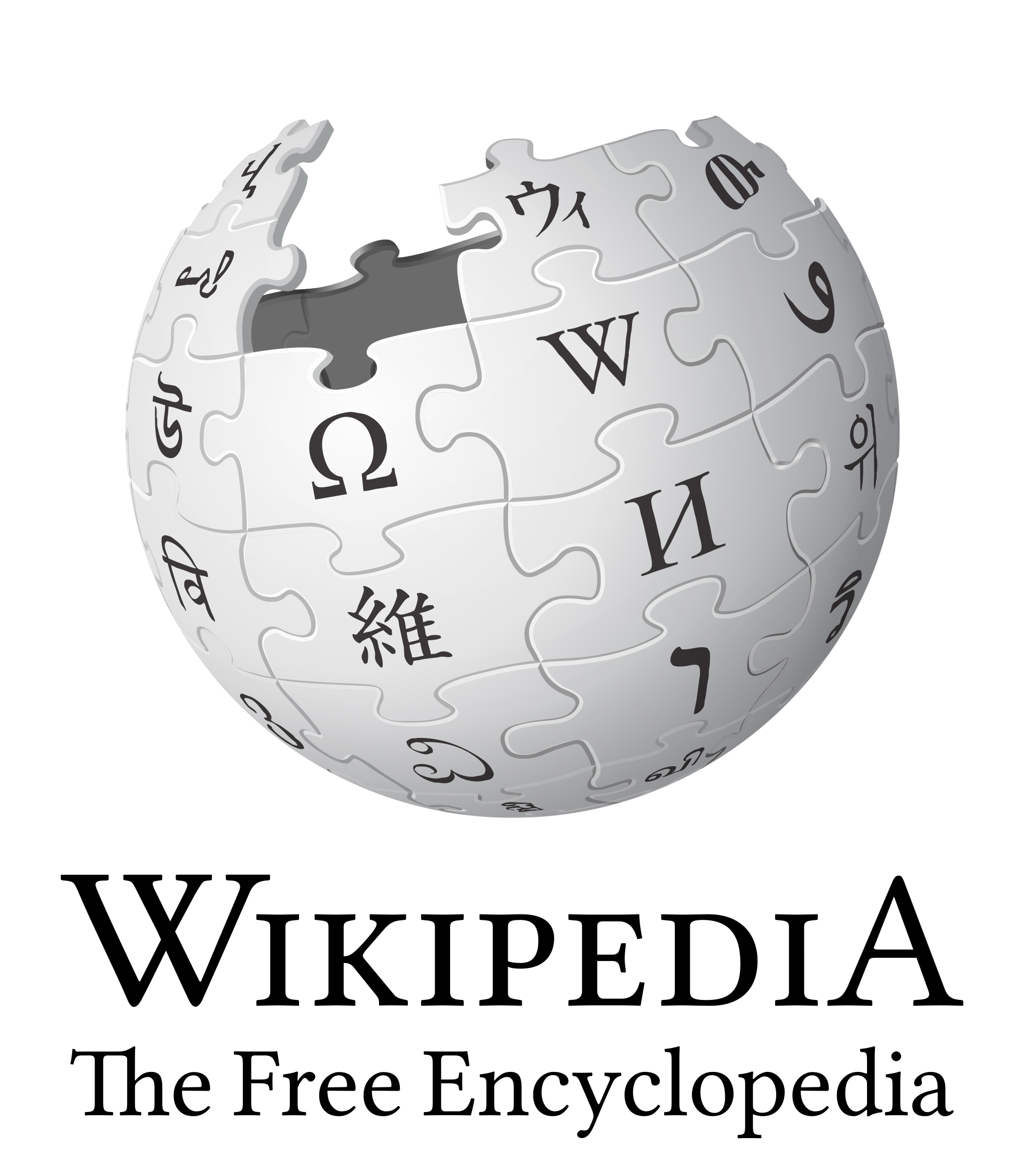 The logo of Wikipedia